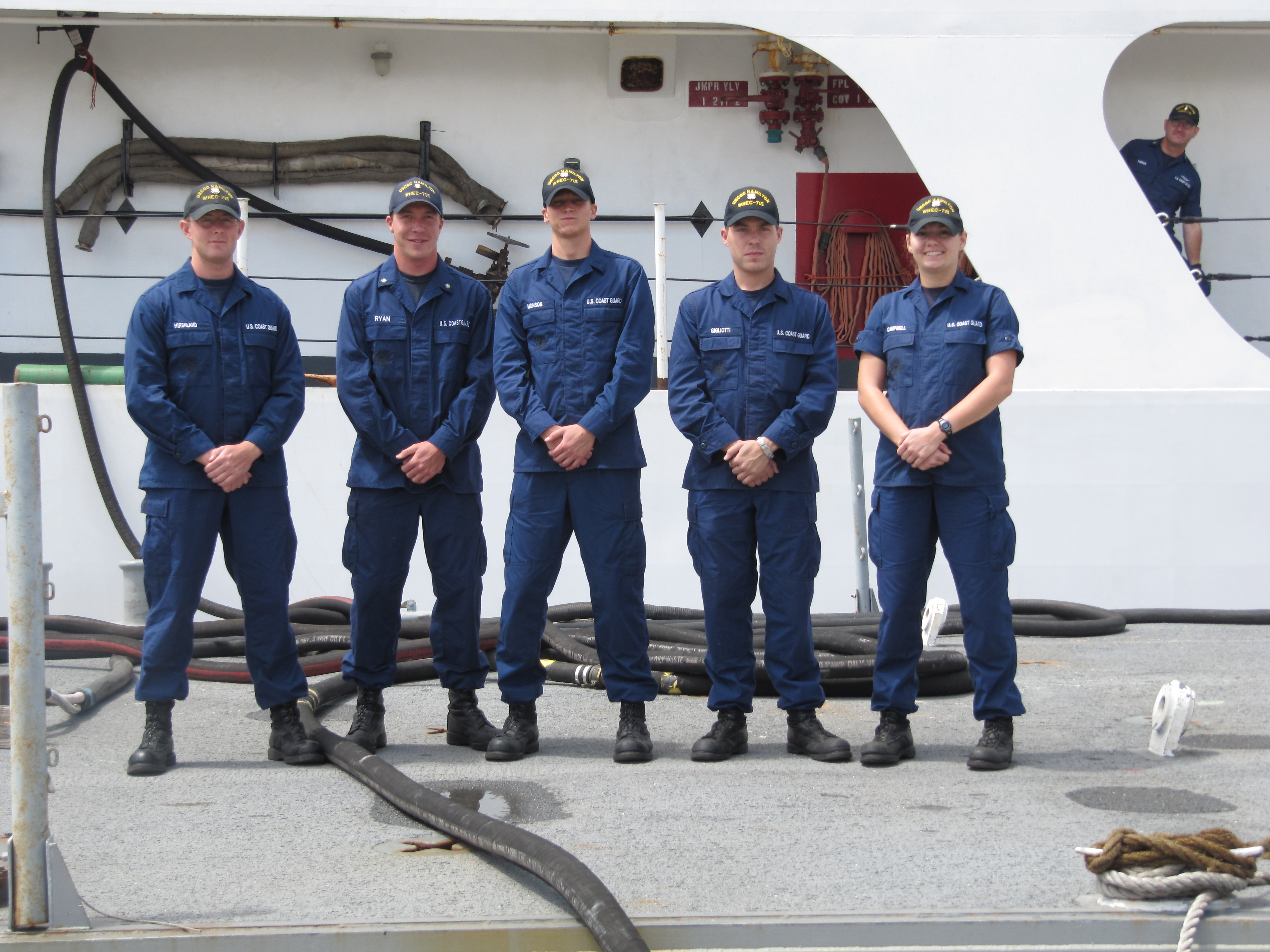 The Coastguard Cutter Hamilton crew, April 2010. Photograph by Patty Mooney, Crystal Pyramid Productions, San Diego, California.